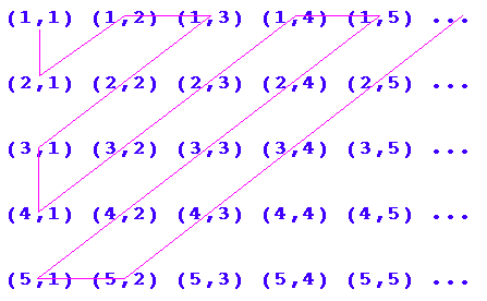 Rationals are countable